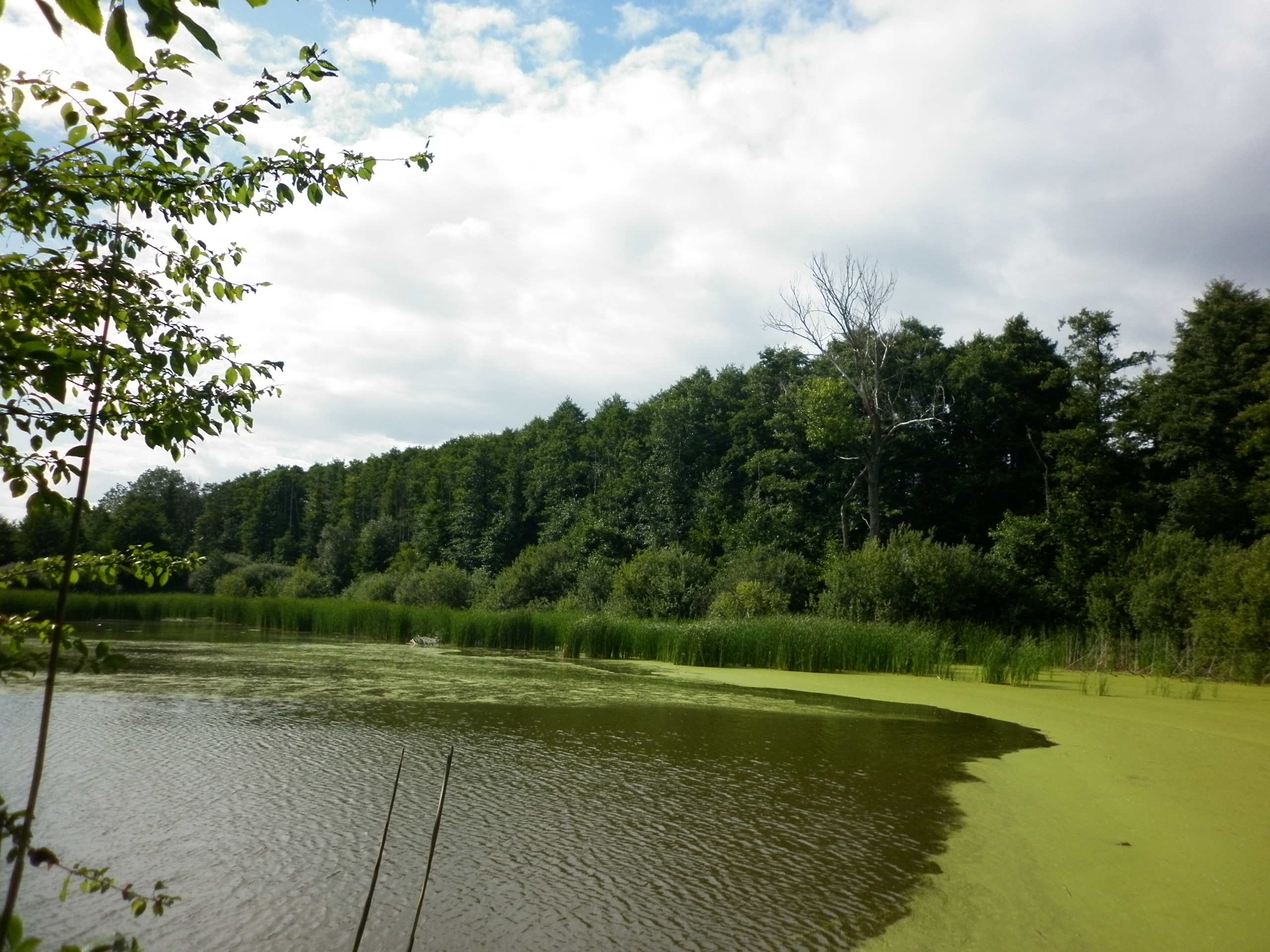 Natural monument "Šejval" in Ústí nad Orlicí District, Czech Republic. Former locality of Hippuris vulgaris (in the pond "Šejval"), extinct here since 1996. Rare plant species on wet meadows around the pond.